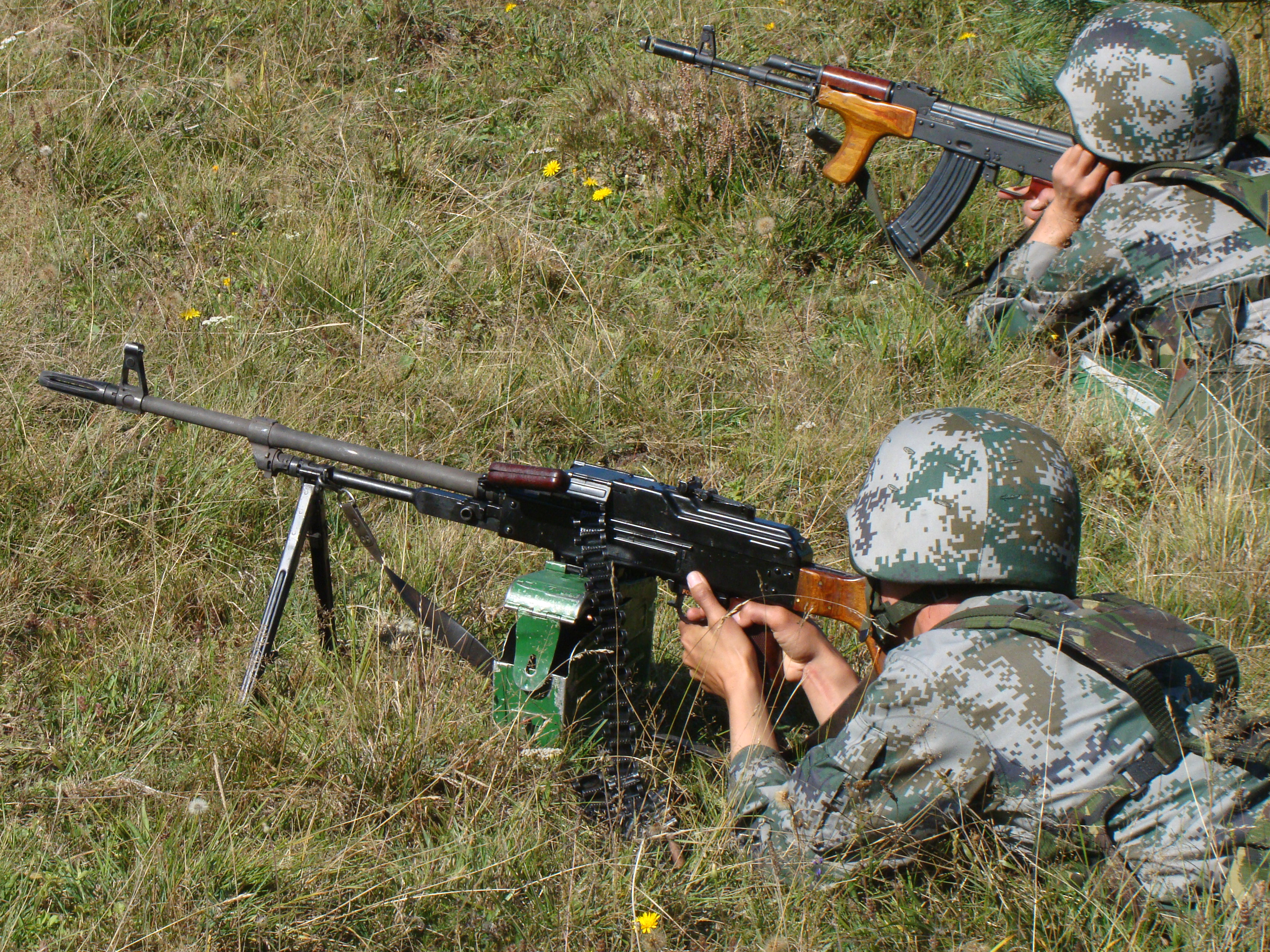 Sino-Romanian army mountain troops joint training "Friendship Action 2009".